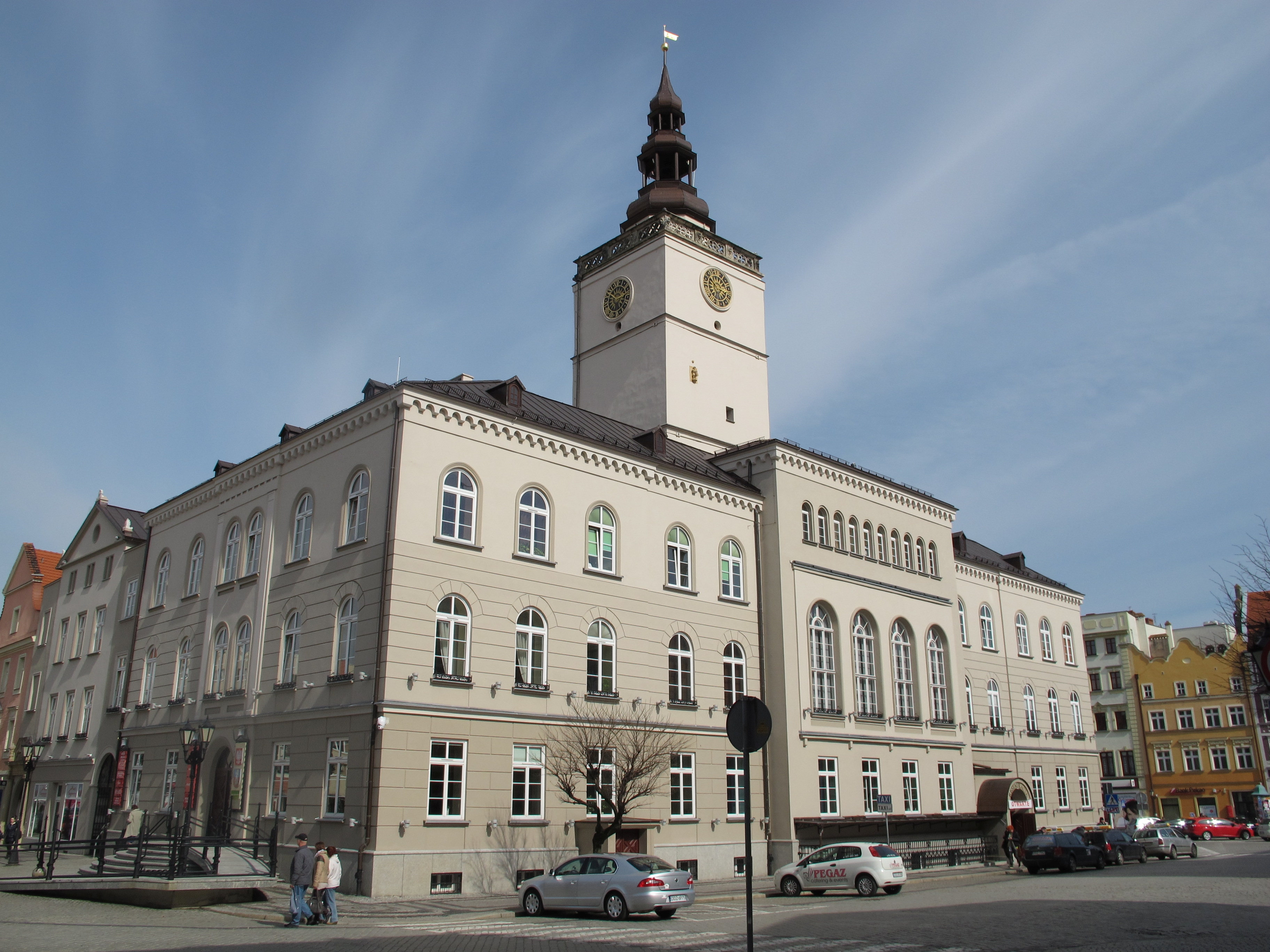 Dzierżoniów - town hall